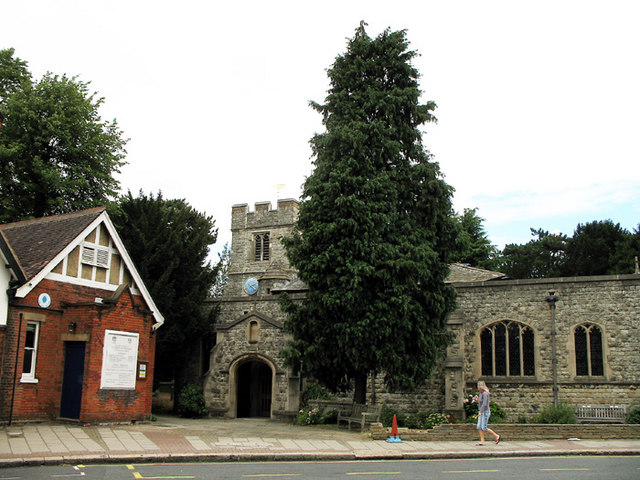 St Mary at Finchley. Founded on this site as the Church of Our Ladye Saint Marye at Fynceslea by Bishop Erkenwald around AD675, the church was rebuilt around AD1100 and again in the 15th century. Part of the south aisle was added as recently as 1932. Following bomb damage during the WWII, the church was restored in 1953. Due to the many trees and the adjacent brick building that surround the church, this is the only angle from which the clock is visible!